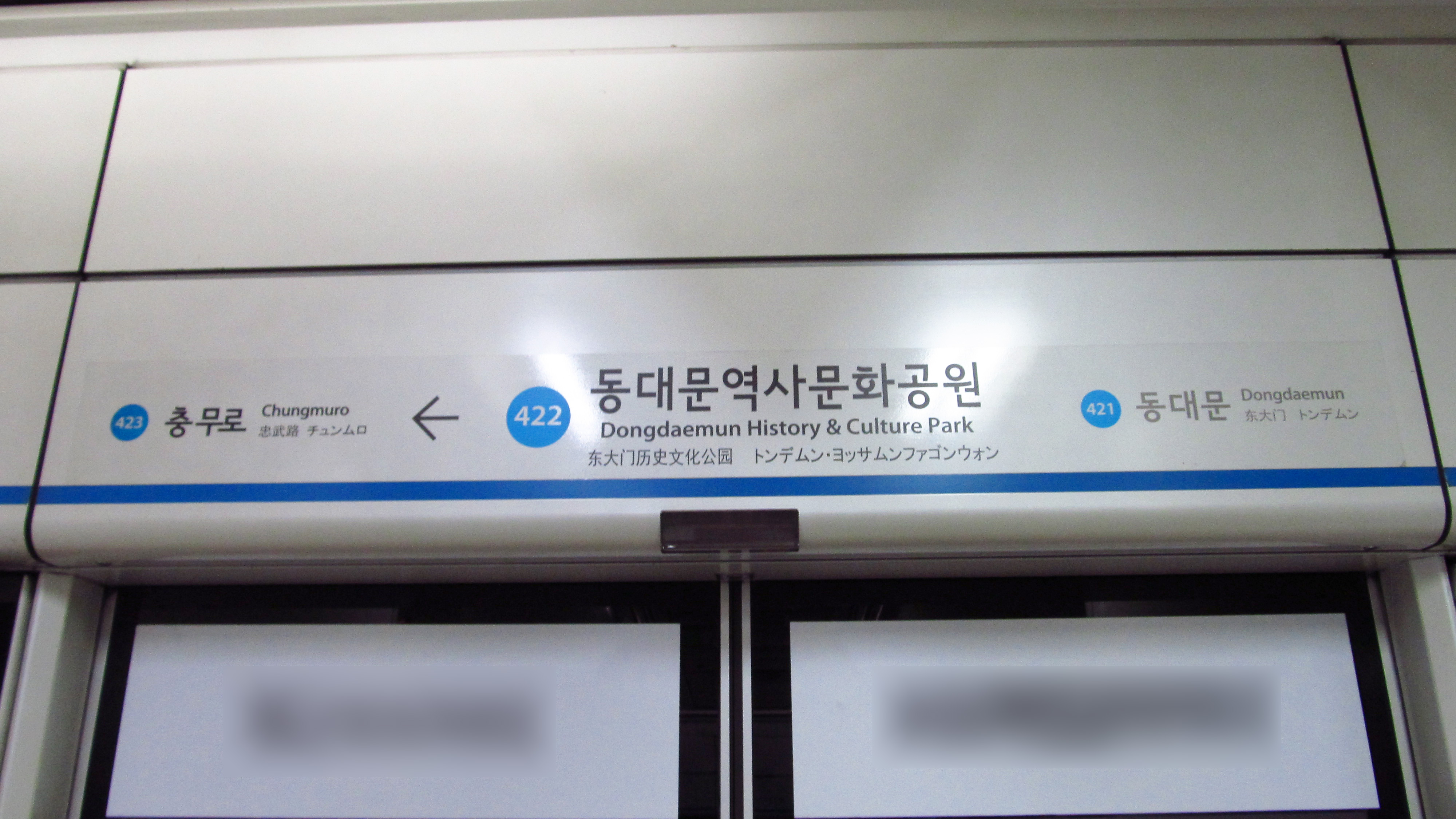 A sign of Dongdaemun History & Culture Park Station on Seoul Subway Line 4